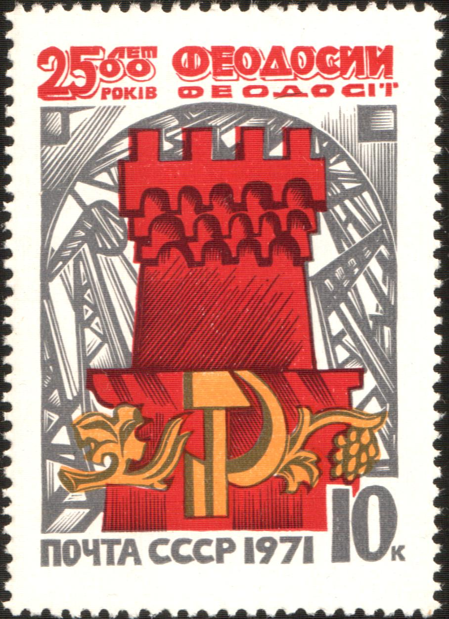 USSR stampː Ancient Genoa Tower, Modern Cranes, Hammer and Sickle and Grapes. Seriesː 2500th Anniversary of Feodosia, Crimea (Feodosia)